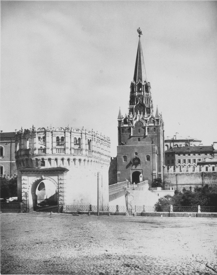 Troitskaya Tower